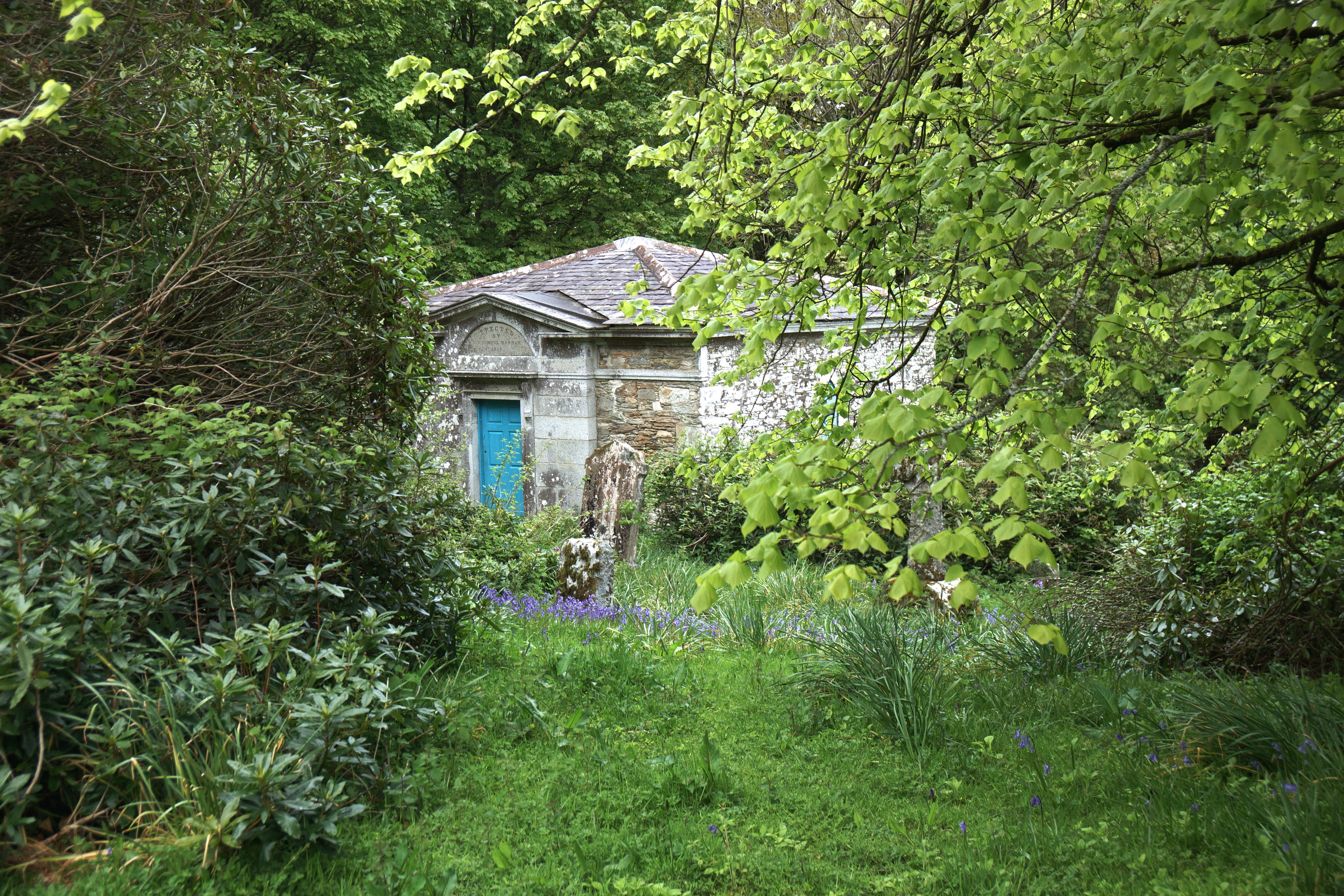 Remains of Kirkdale Church